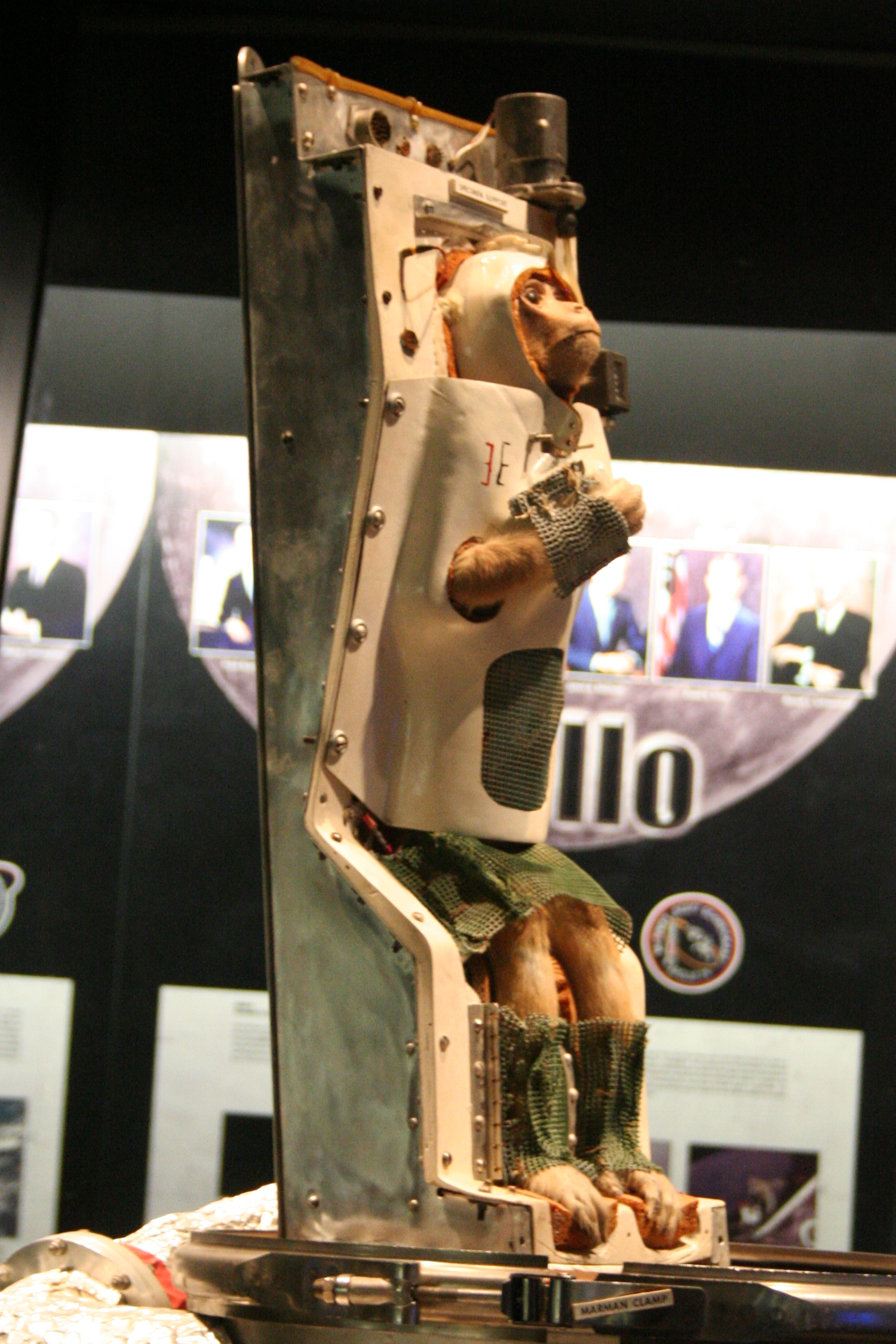 Display of Able and her couch at the National Air and Space Museum